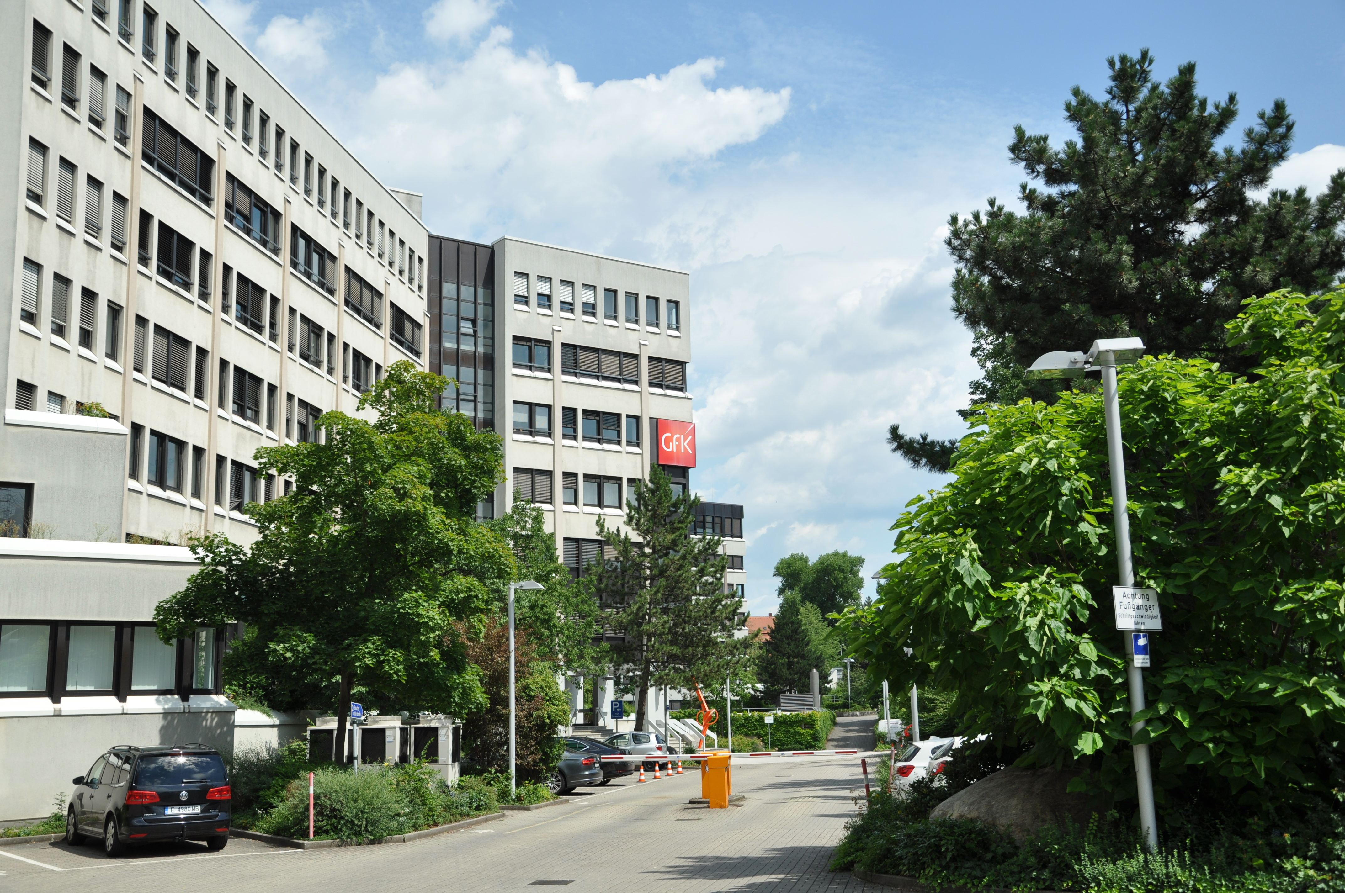 Property of GfK in Nuremberg, Nordwestring 101.